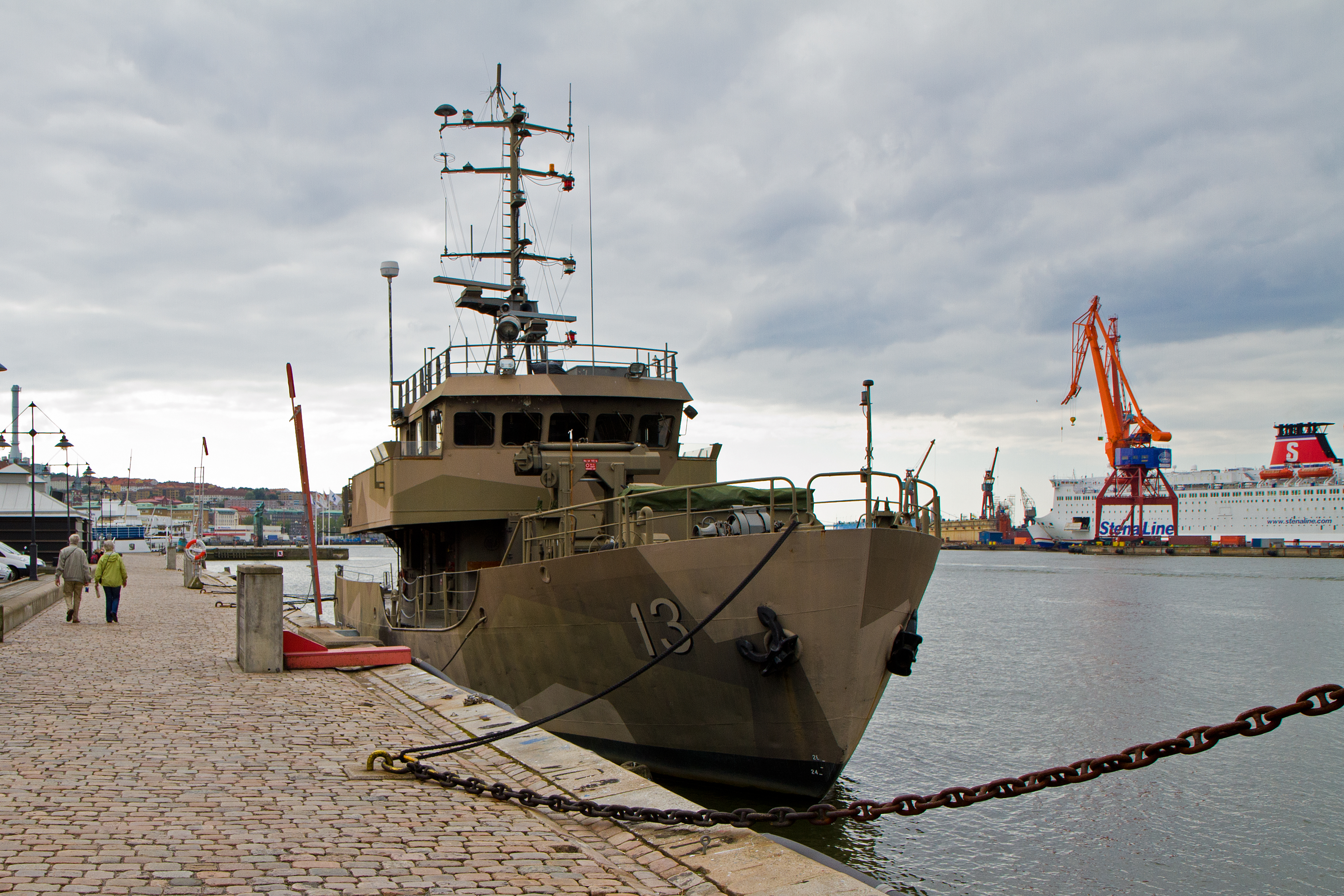 HMS Kalmarsund (13) at Gothenburg's Maritime Center.